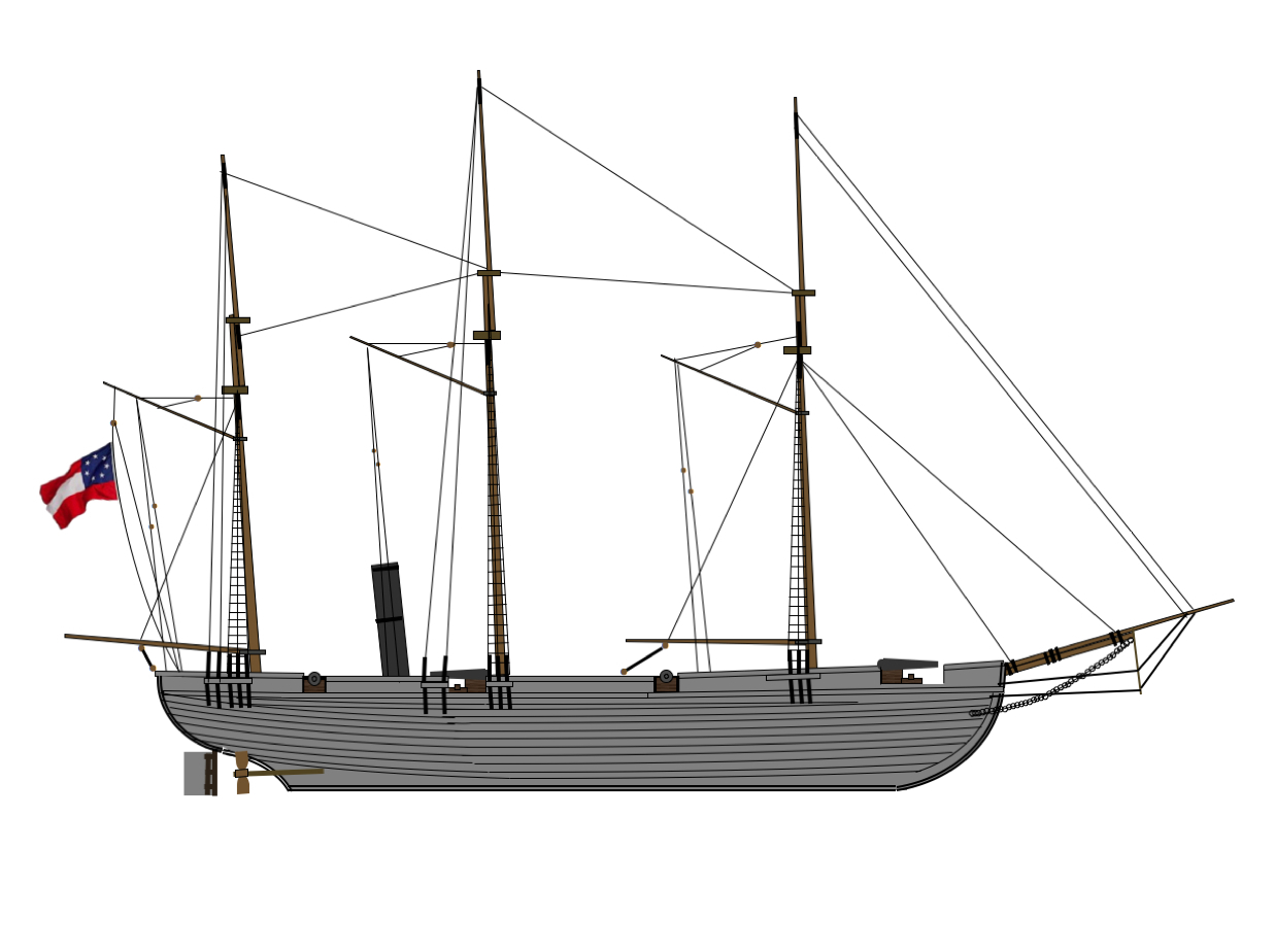 CSS Chattahoochee was a twin-screw steam gunboat built at Saffold, Georgia. She entered service in February 1863 for the Confederate States and was named after the river upon which she was built. She was 150 ft long, with a beam of 25Sh drew 8 ft of water, and cold make 12 knots. Her armament consisted of four 32-pounder smoothbore cannon mounted two on each broadside, one 32-pounder rifled cannon on pivot at he bow, and one 9-inch smoothbore cannon on pivot at midships. Her complement was 120 officers and crew. Chattahoochee was plagued by machinery failures; a boiler explosion killed 18 of her complement on May 27, 1863 as she prepared to sail from her anchorage at Blountstown, Florida, to attempt retaking the Confederate schooner CSS Fashion, captured by the Union. On June 10, 1864 she was floated and moved to Columbus, Georgia, for repairs and installation of engines and a new boiler. While she was undergoing repairs at Columbus, 11 of her officers and 50 crewmen tried unsuccessfully to capture USS Adela blockading Apalachicola, Florida. USS Somerset drove off the raiders, capturing much of their equipment. When the Confederates abandoned the Apalachicola River in December 1864, the Chattahoochee was moved up the Chattahoochee River, and then scuttled near Columbus as Union troops approached the city. (Credit Bob Holcombe, National Civil War Naval Museum at Port Columbus, Georgia).